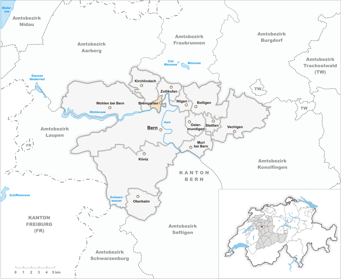 Municipality Bremgarten